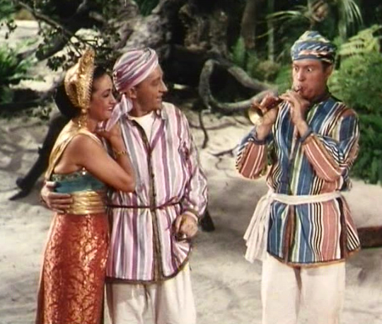 Cropped screenshot of Dorothy Lamour, Bing Crosby and Bob Hope from the film Road to Bali.